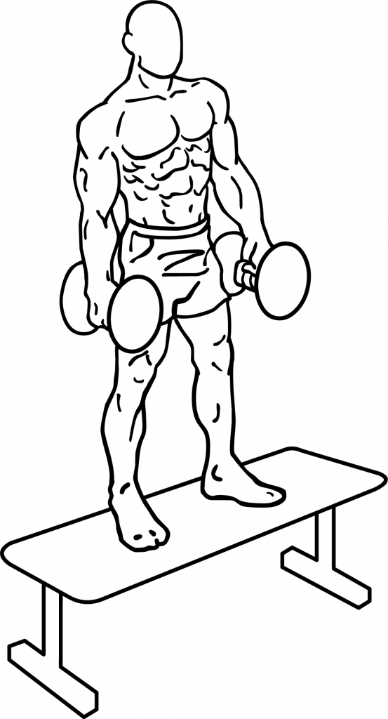 an exercise of hip and thigh